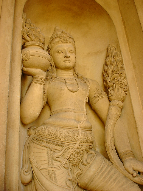 Atula Siriwardane 17:53, 12 April 2007 (UTC)